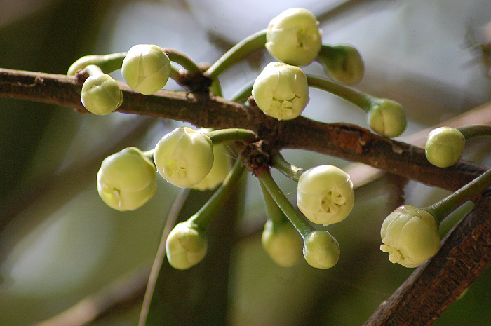 Flowers of Garcinia xanthochymus from Clusiaceae. Again, native to India but rarely seen in cultivation.